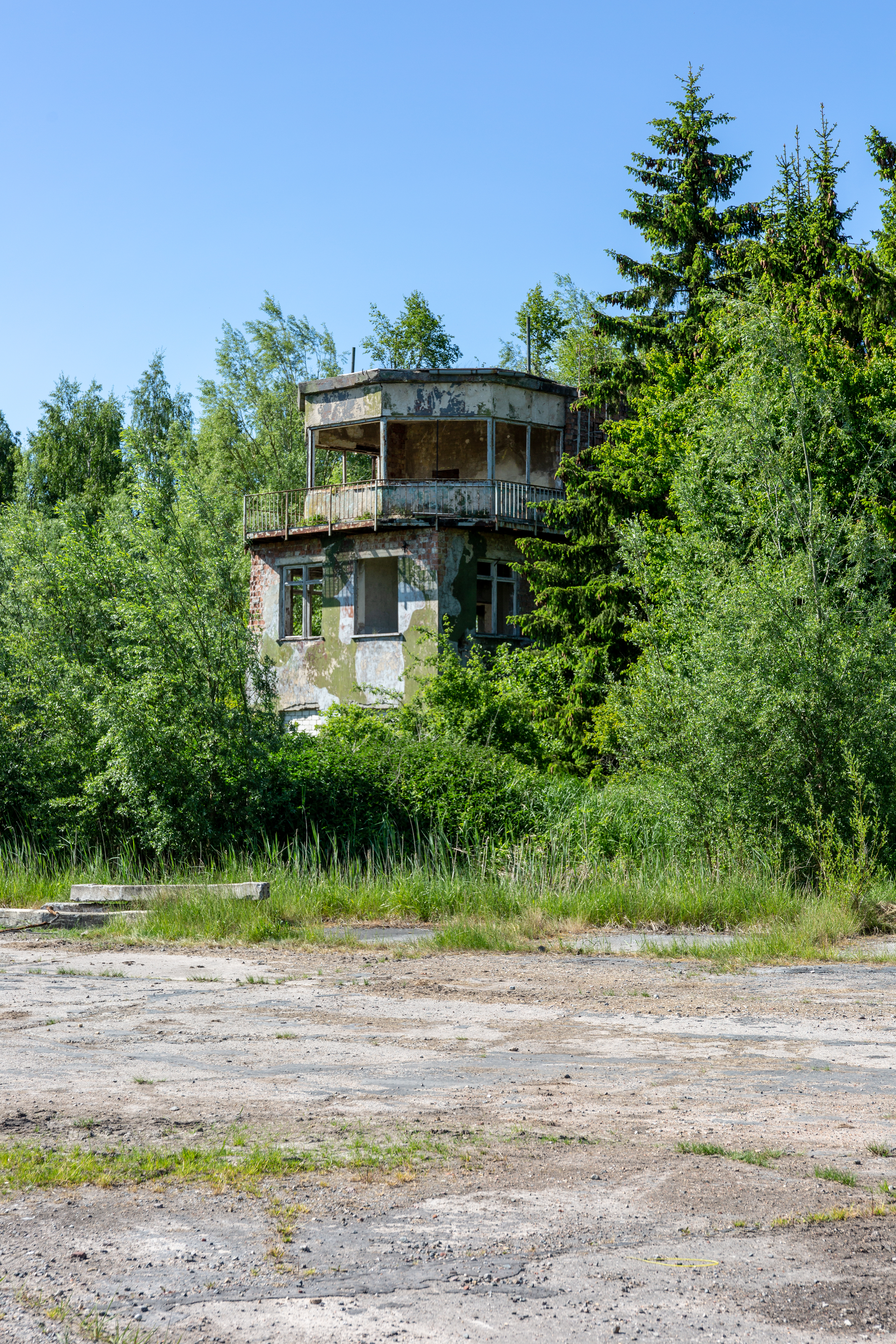 Fliergerhorst Pütnitz